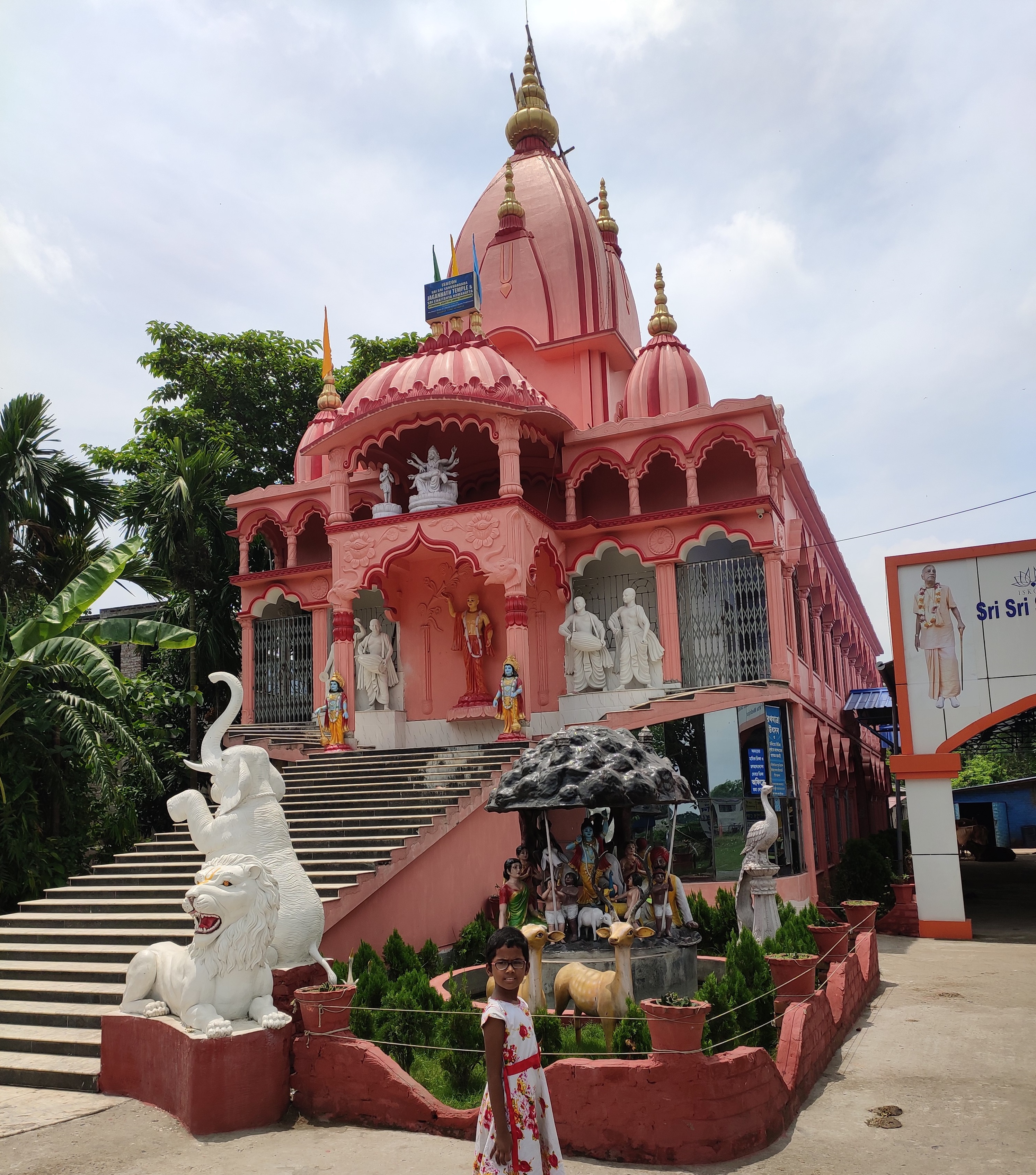 Temple